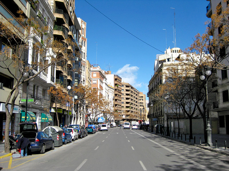 Carrer de Guillem de Castro, Valencia, Spain. Carrer de Guillem de Castro, València.